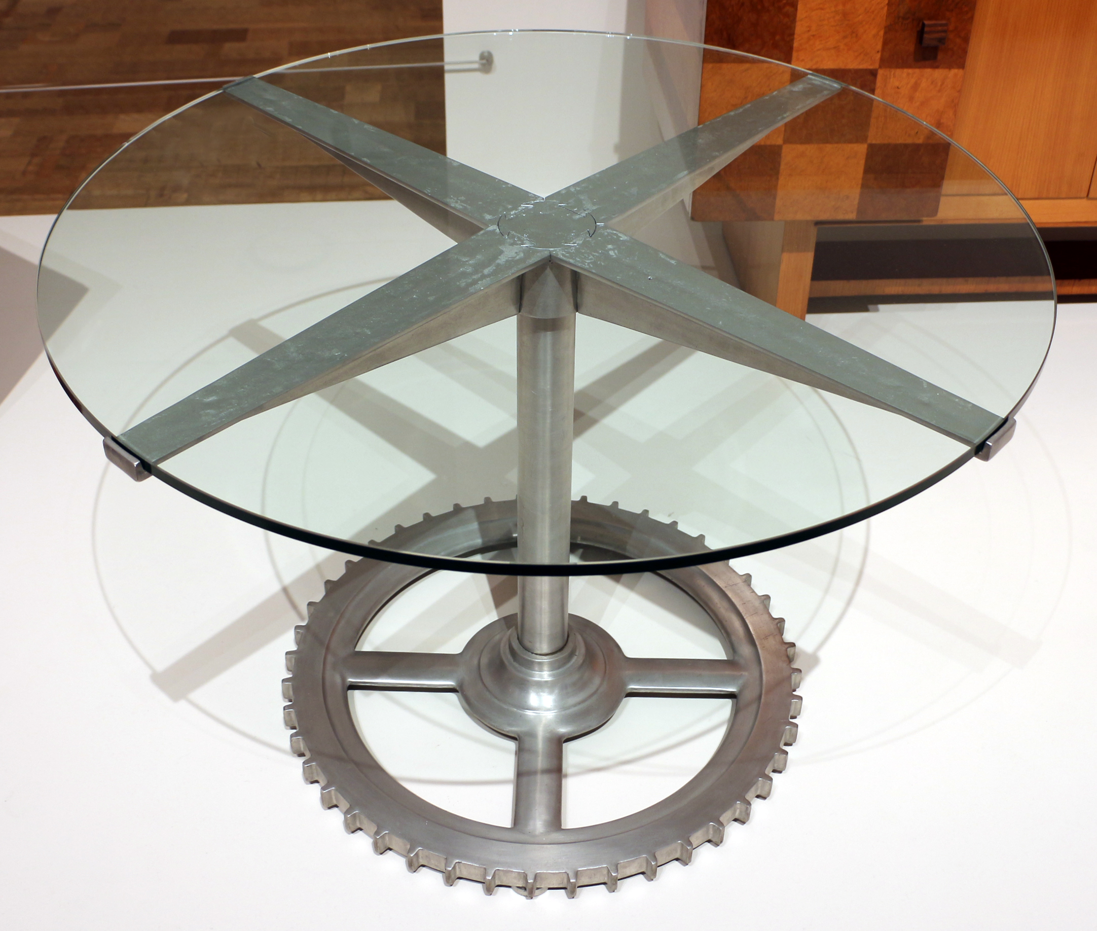 Furniture in the Milwaukee Art Museum